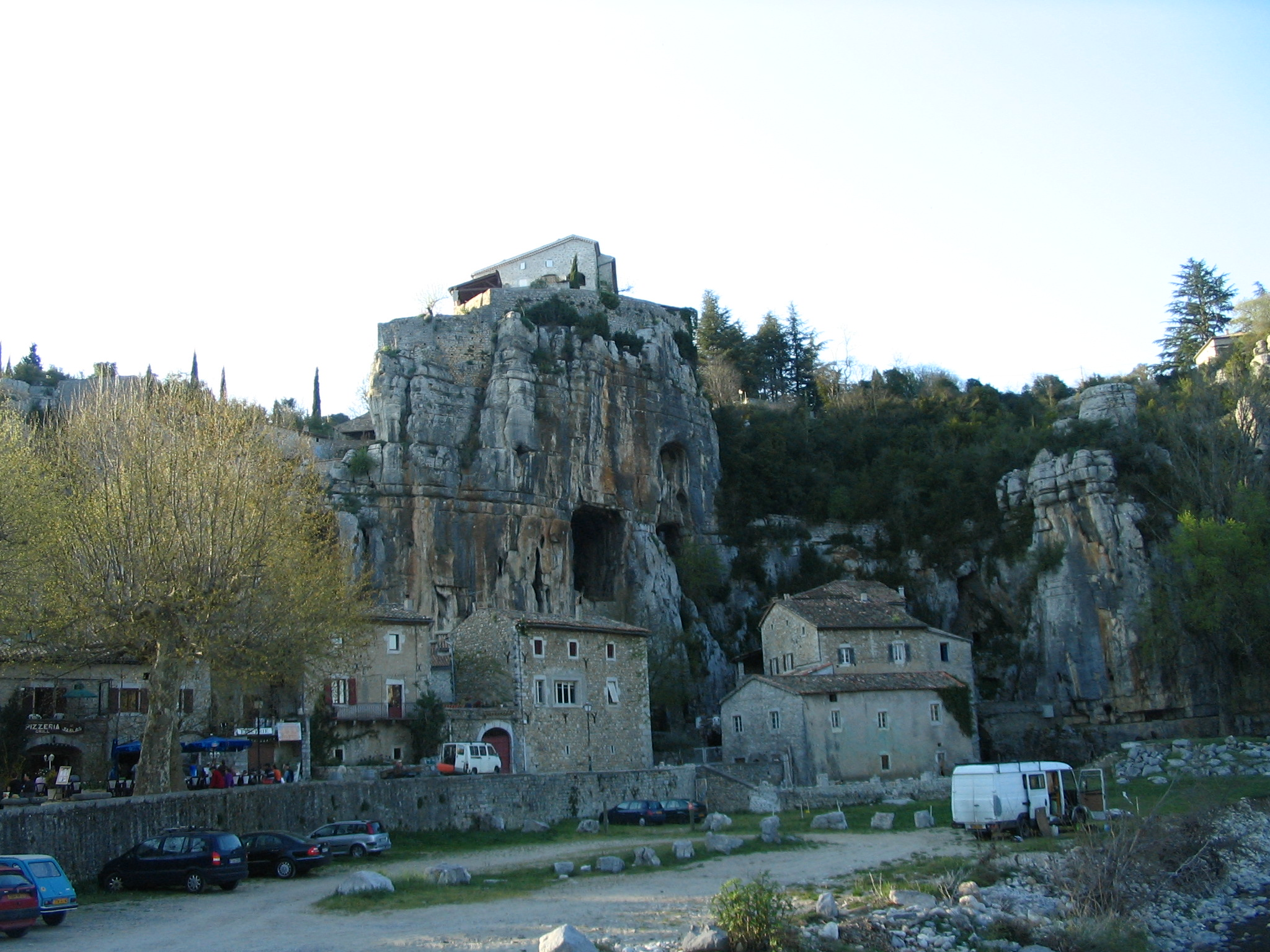 Historical Village Labeaume in the Ardèche Region, France